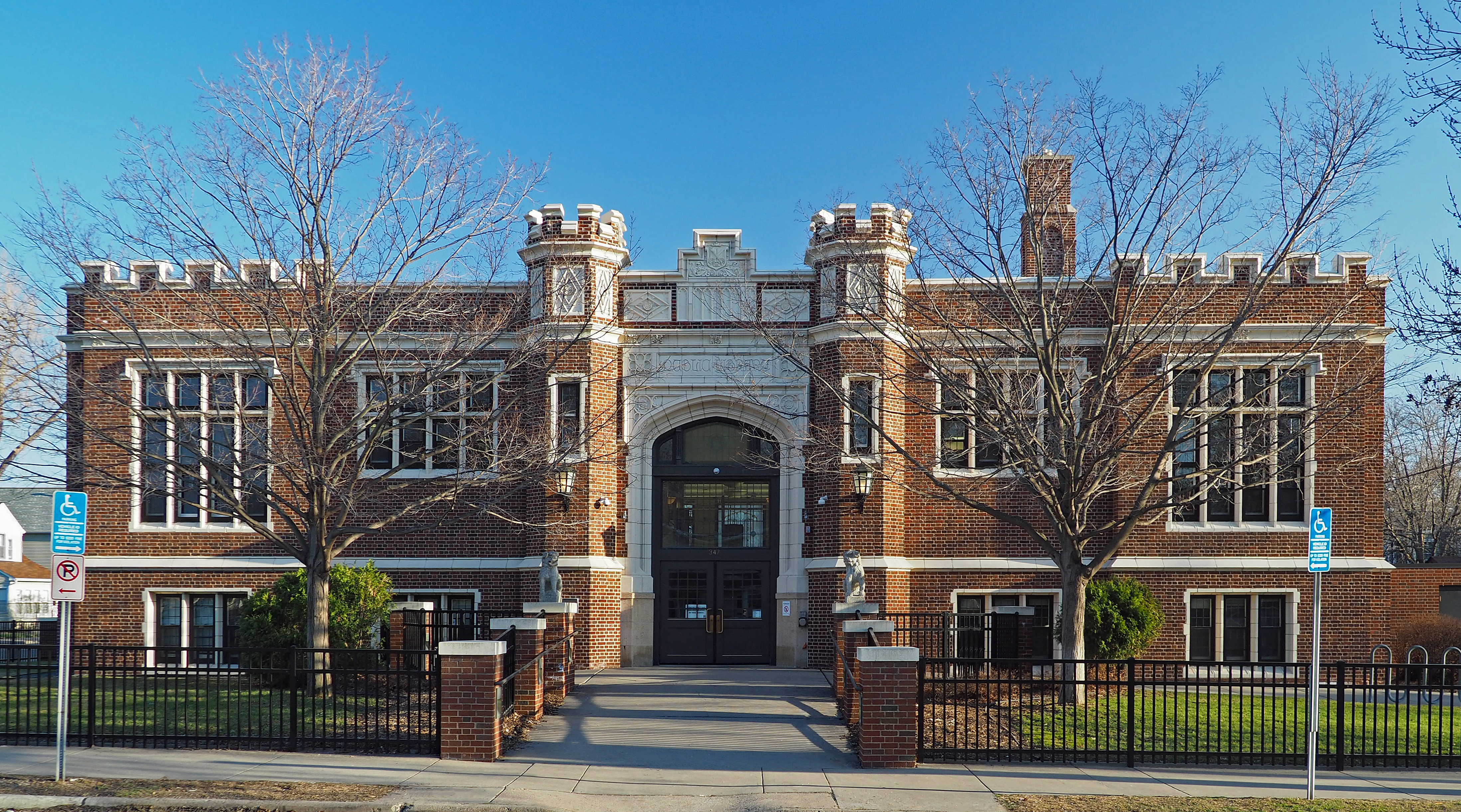 Hosmer Library, 347 E 36th St, Minneapolis, Minnesota, USA. Viewed from the north.